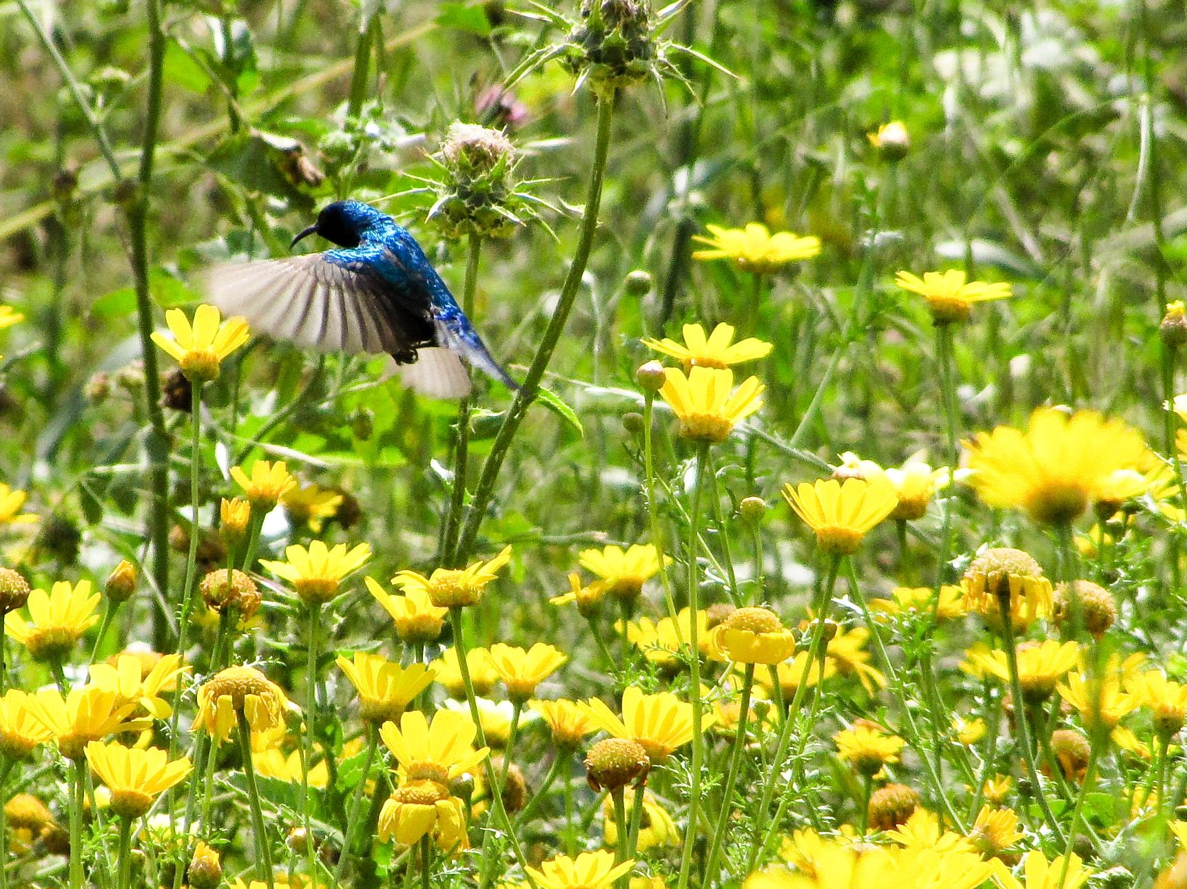 Palestine Sunbird (male)